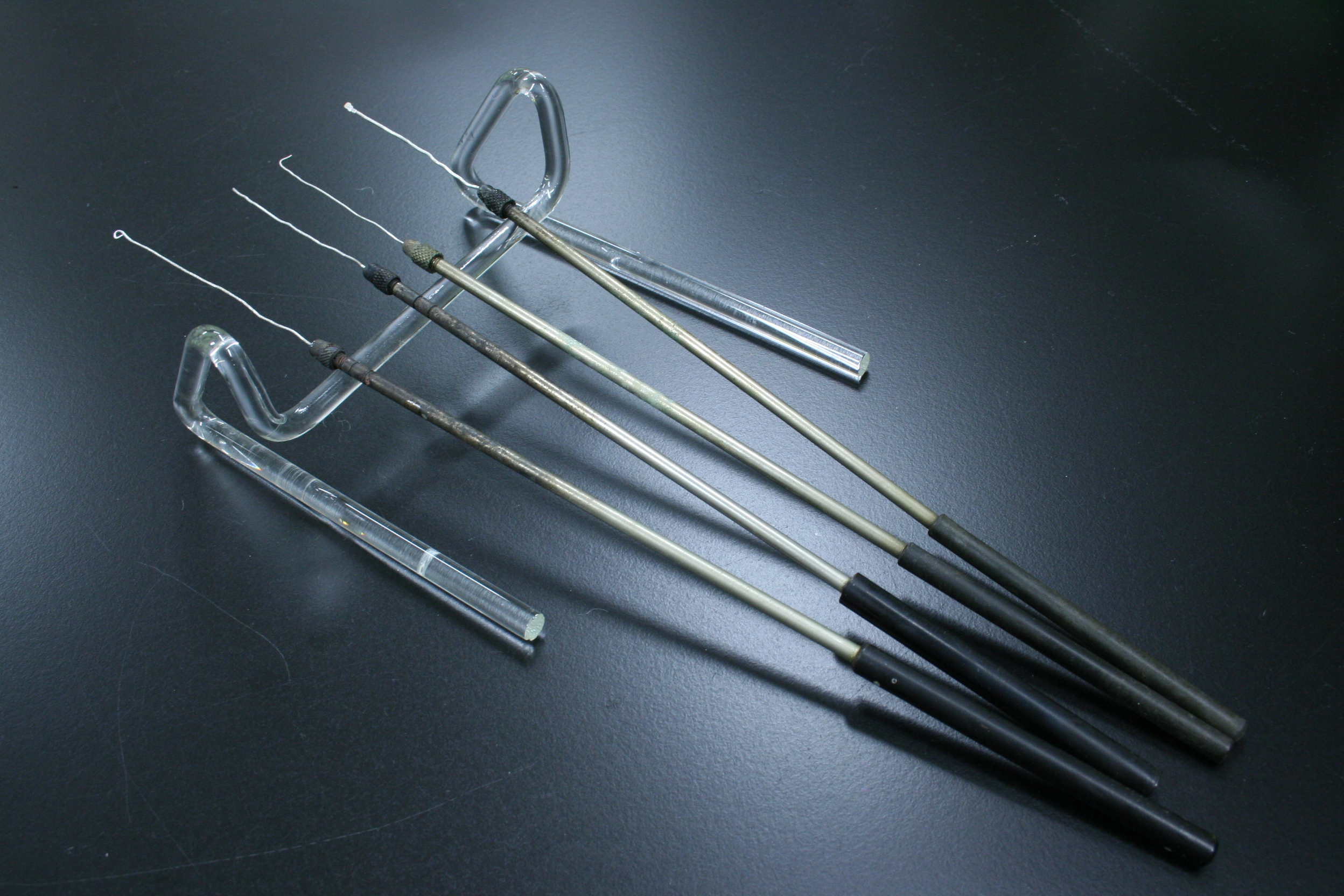 This is a platinum loop, it is used for bacteria inoculation. I took this photograph in September 24th in 2006.